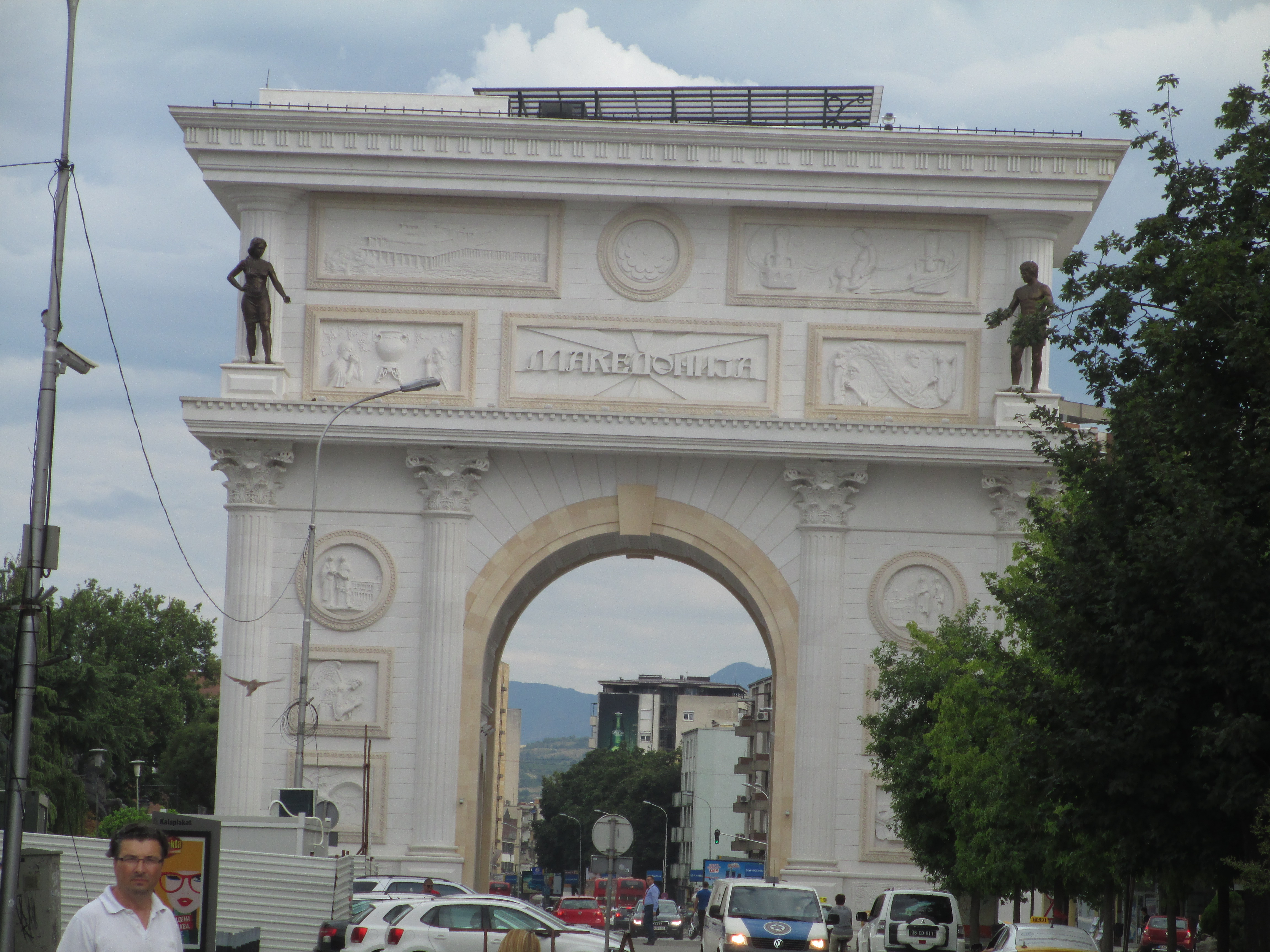 Triumphal arch - Porta Makedonija in Skopje